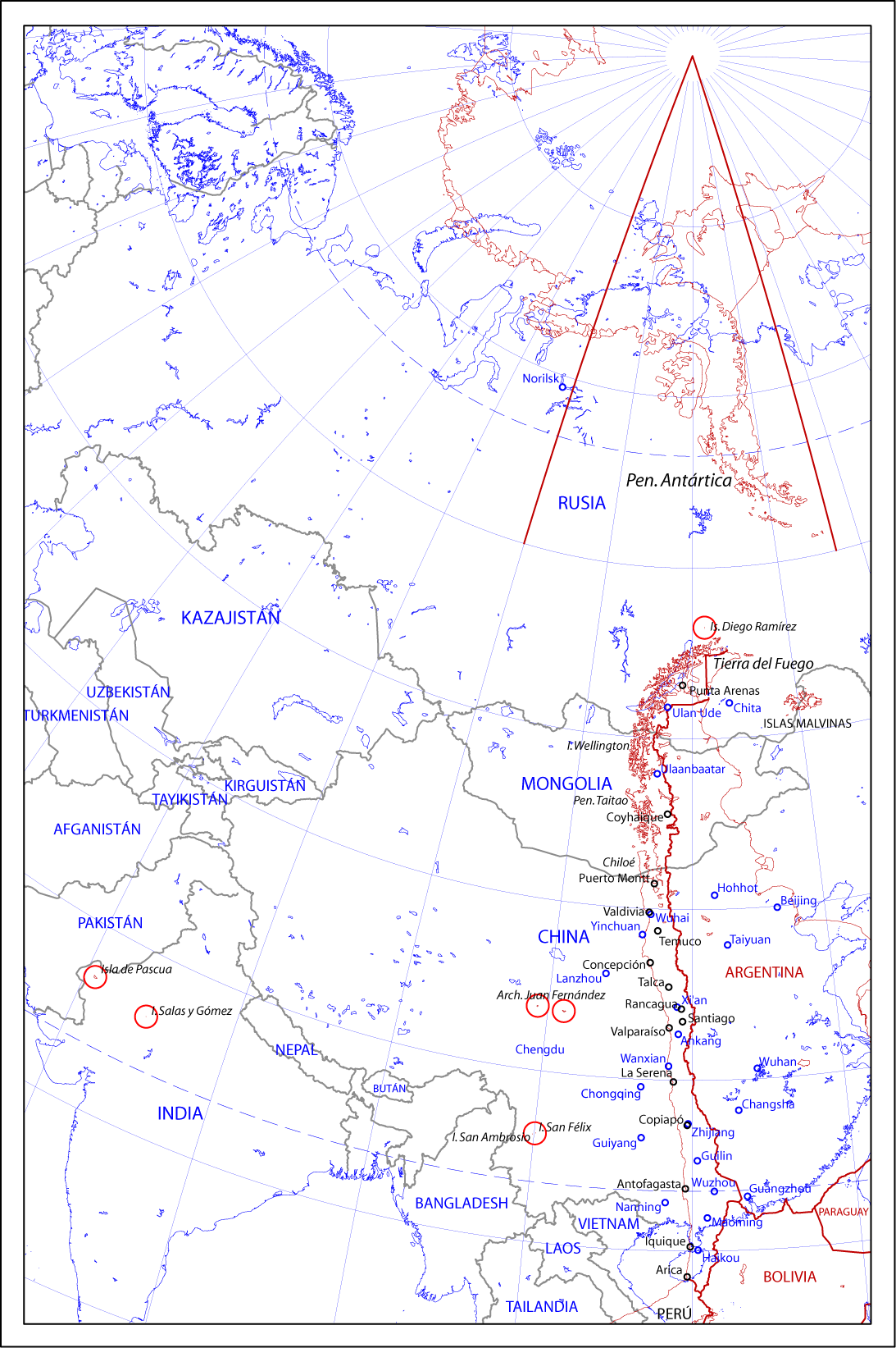 map showing the antipodes to Chile including antarctic claim. Spanish